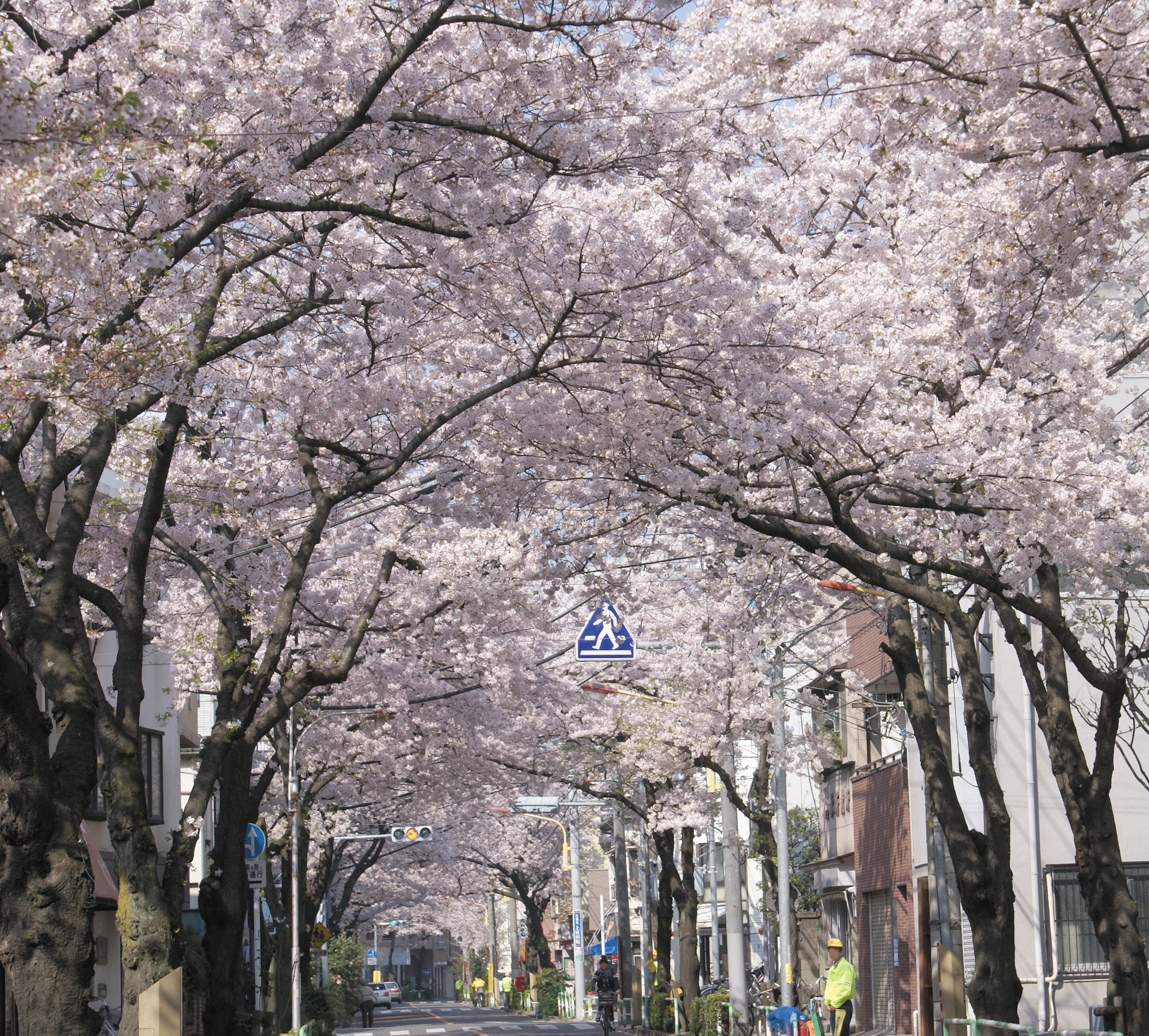 Kankanmori Street in Higashi Nippori 2-Chome Arakawa-ku, Tokyo, Japan.